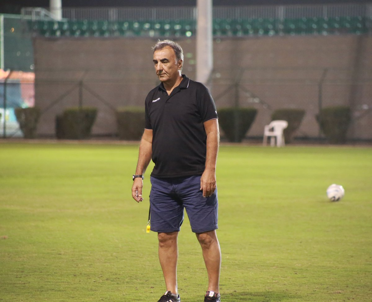 Senad Kreso in a training session with Al-Nasr Club. Sultan Qaboos Sports Complex, Bowsher, Muscat, Oman 26 February 2016 Photographer email id